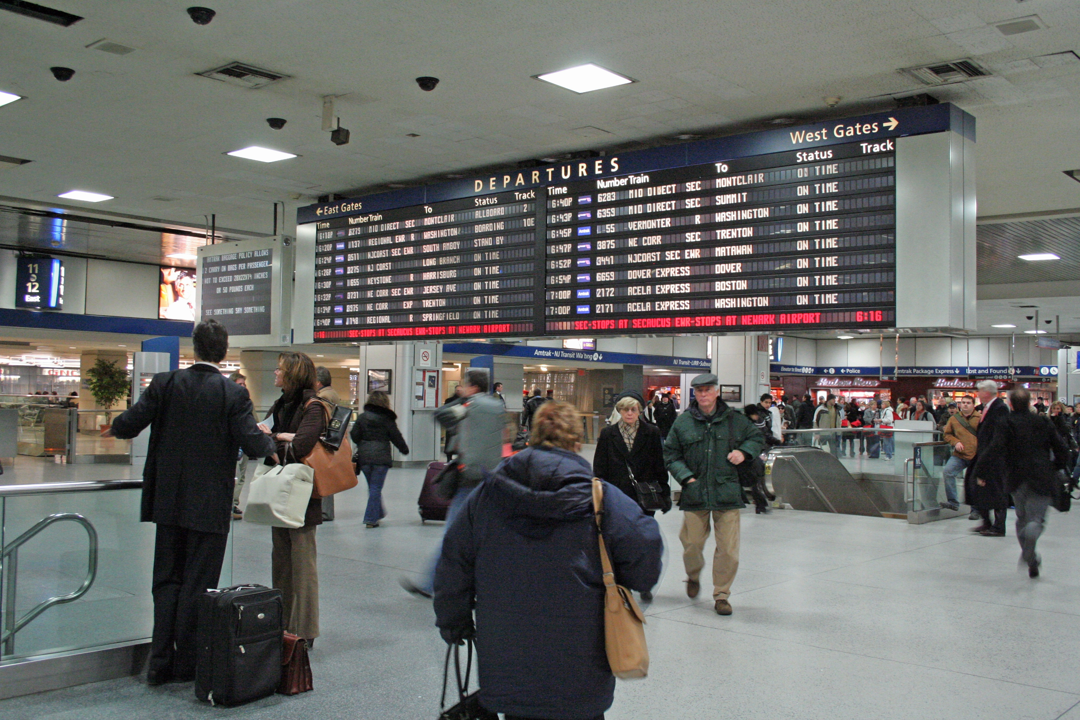 "Grand Central, it ain't." Train departure board at Pennsylvania Station (New York City).